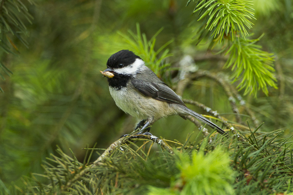 Black-capped Chickadee - Oregon Coast_S4E5521